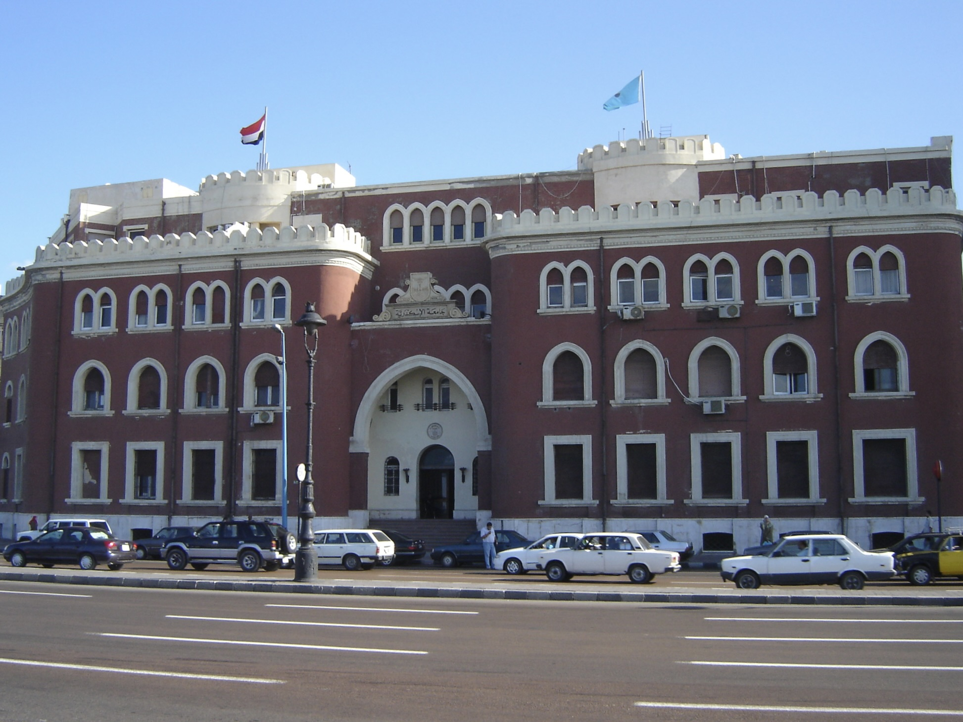 Administration building of Alexandria university in El-Shatby area. (Author: Amr Fayez )